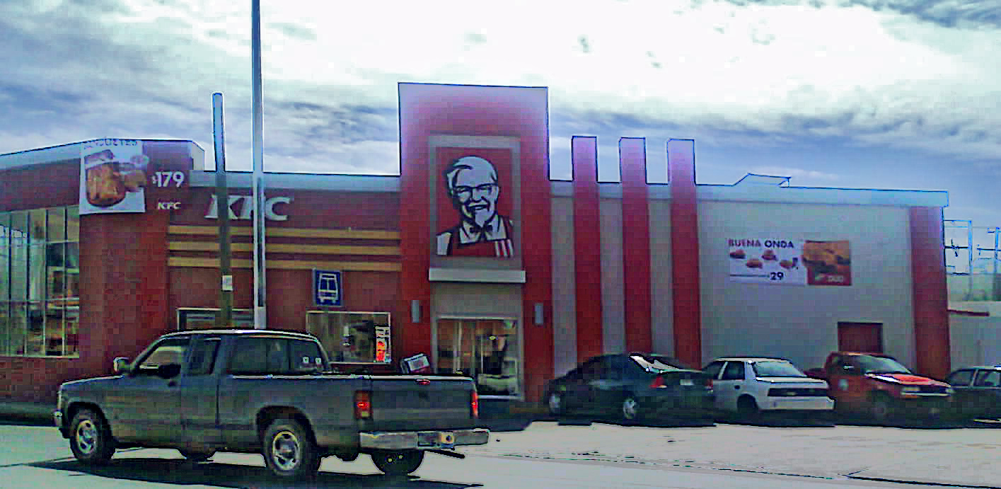 KFC Reforma restaurant in Torreon, Mexico.